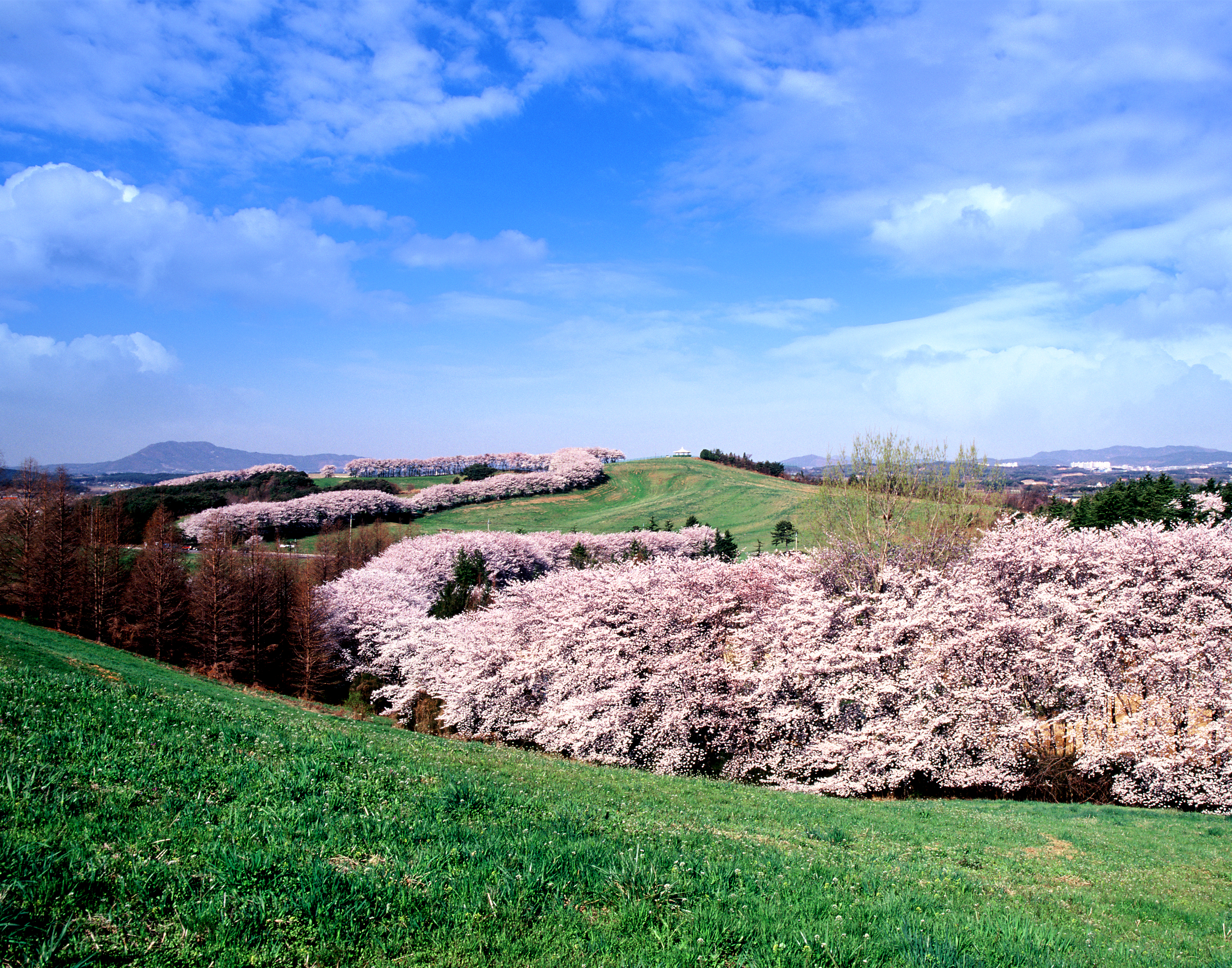 Seosan Hanwoo Ranch